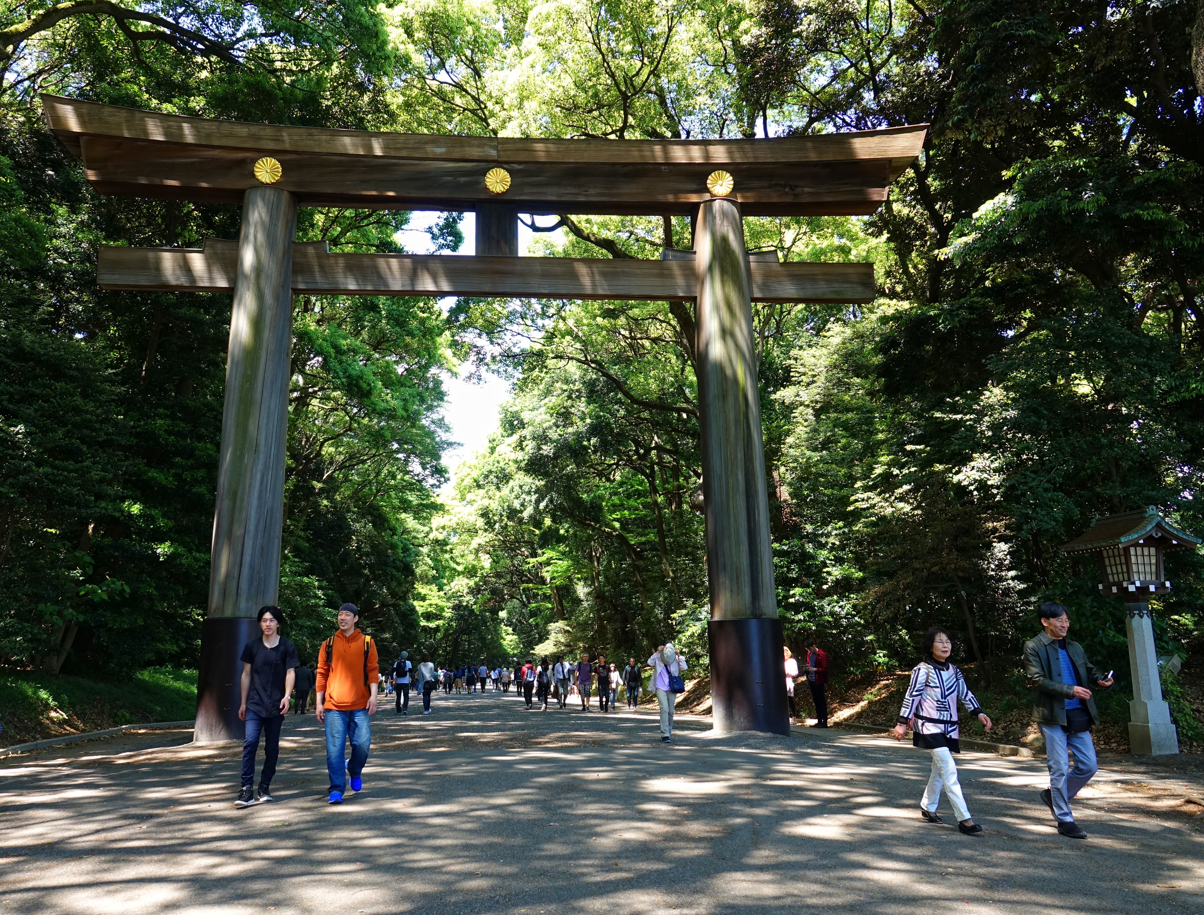 Torii located near the JR Harajuku Station, at the entrance to the Meiji Shrine (Shinto) in Tokyo, Japan.